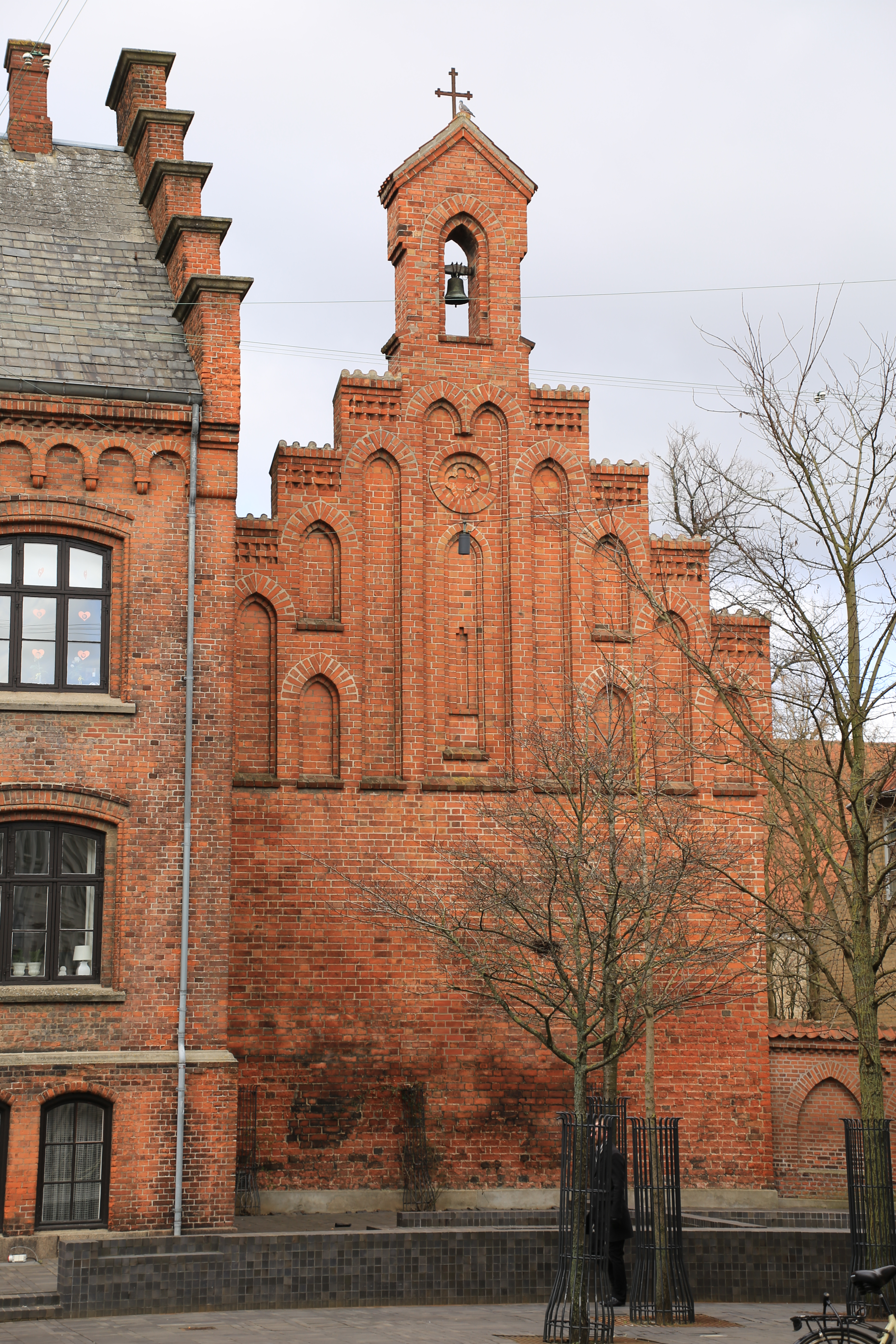 Gråbrødre Kloster seen towards Gråbrødreplads in Odense, Denmark.